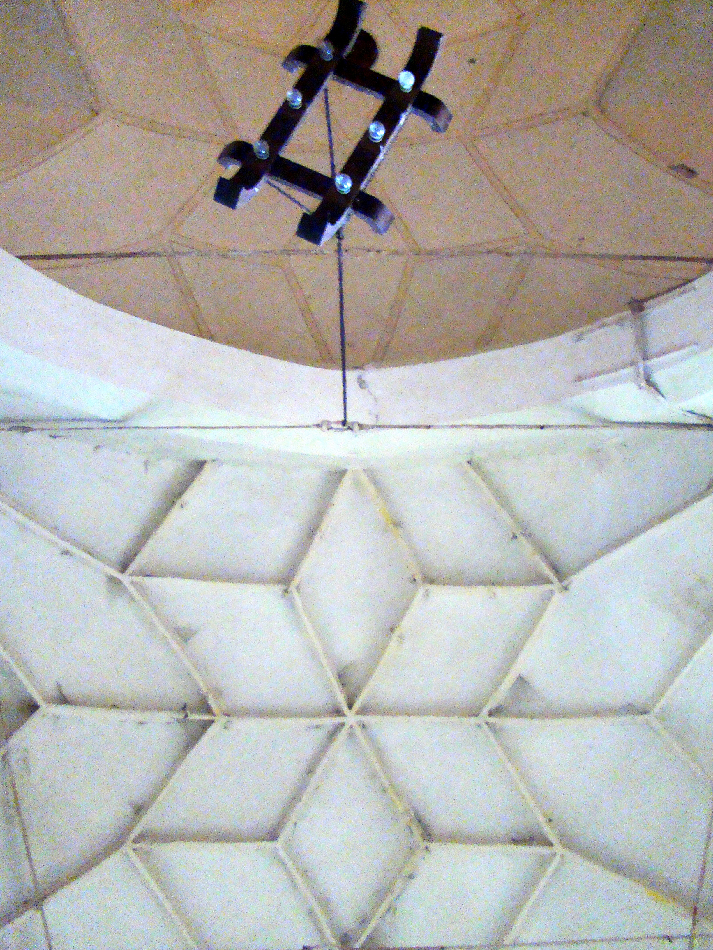 Lutheran church in Dupuș, Sibiu County, Romania